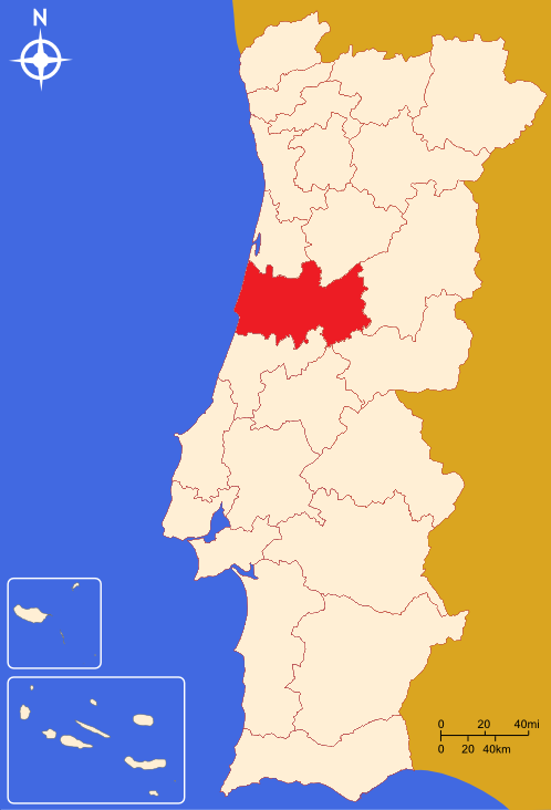 Intermunicipal community of the Region of Coimbra